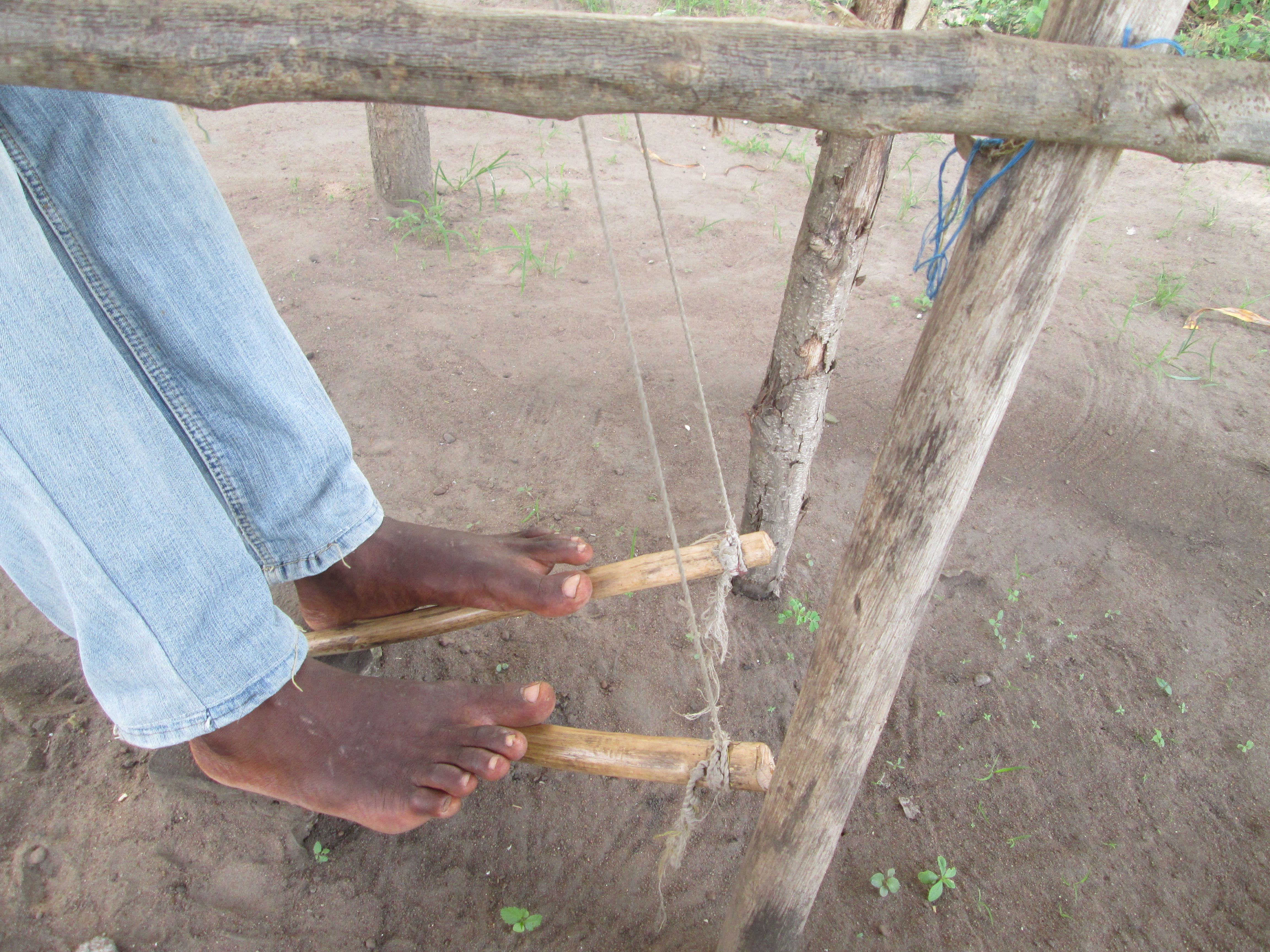 This is an image of Cultural Fashion or Adornment from Ivory Coast